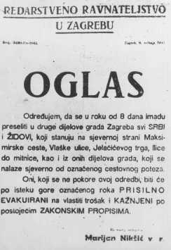 An order to Jews and Serbs from the Croatian nationalist Ustasa to move out of certain city neighborhoods. Zagreb, Yugoslavia, 1941.